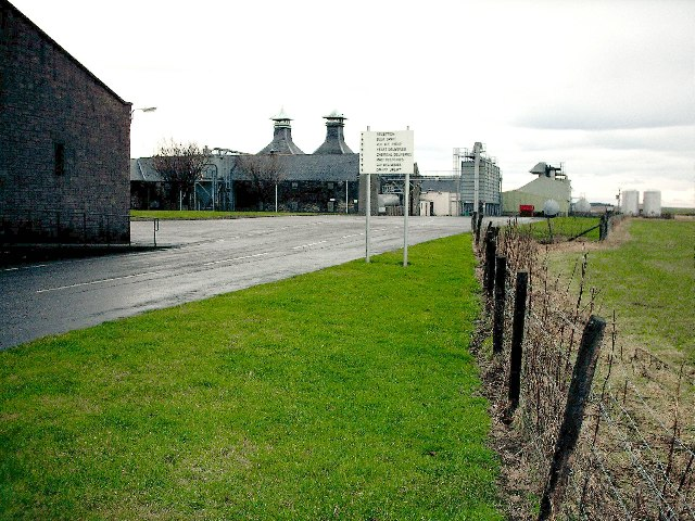 Inchgower Distillery Buckie. This Distillery is owned by Diageo and is situated quite near the Moray Firth